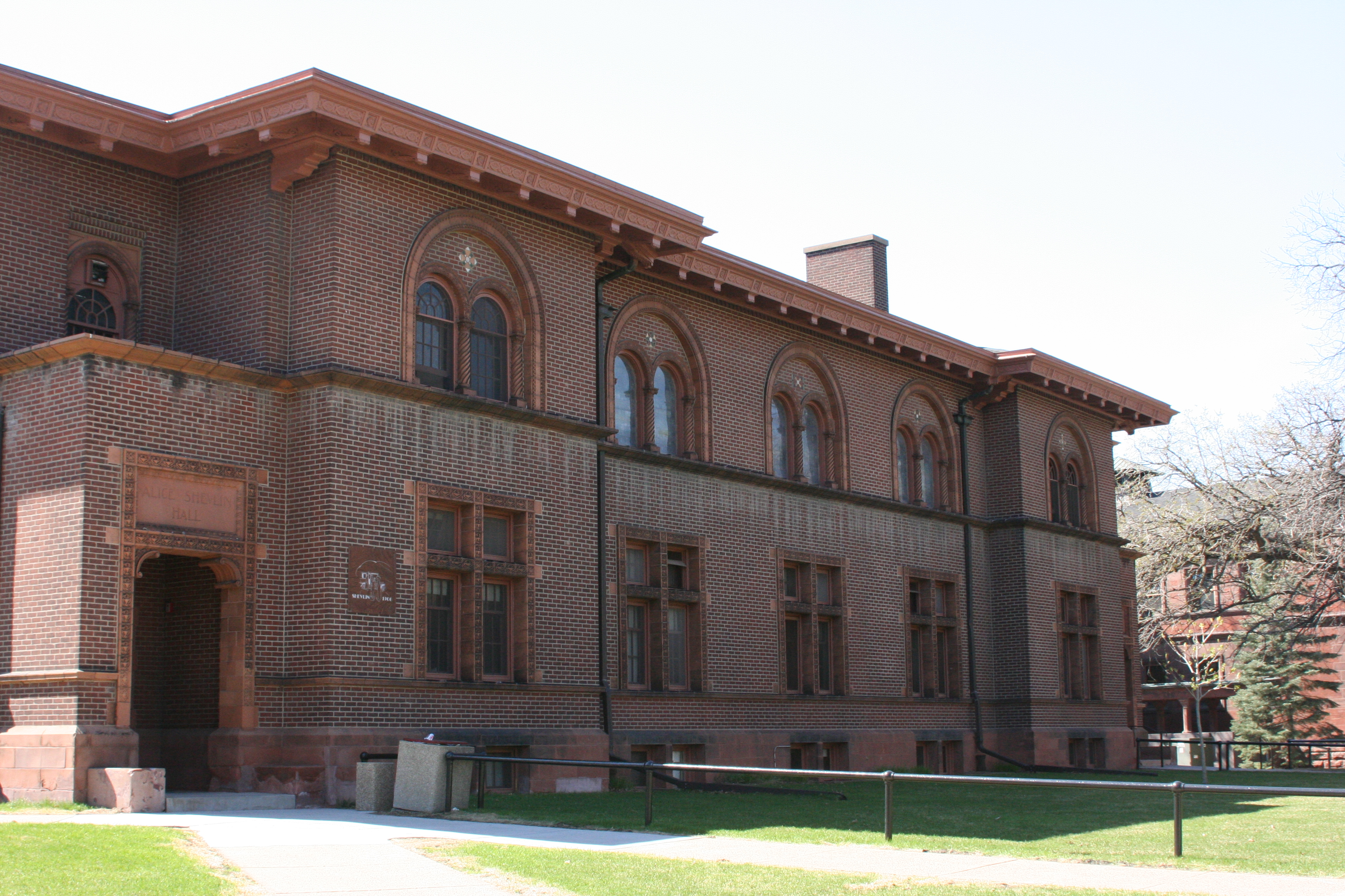 Alice Shevlin Hall at the University of Minnesota